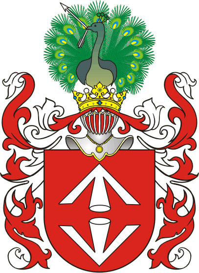 Bogorya Clan / Herb Bogoria.